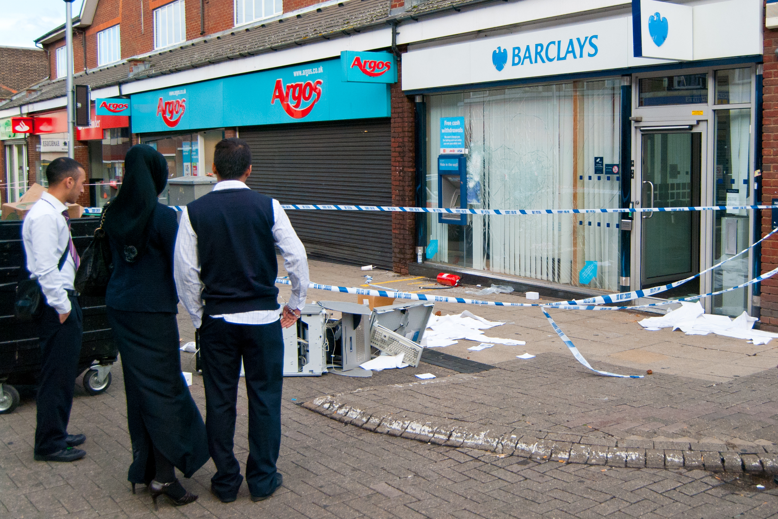 Barclays Bank staff observe the destruction caused in the early hours of 8 August 2011.